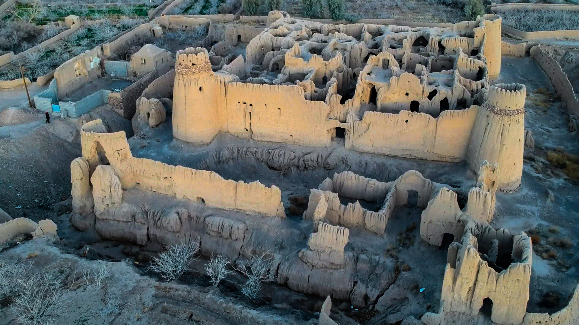 The old castle dates back to about 500 years ago (Safavid era). This castle is located in Shabjareh village in Zarand city of Kerman. The castle has thick walls and four tall towers surrounded by a wide moat. Behind the walls there is an open space for hand-to-hand combat, and in the middle there are huge walls with four other tall towers. The inner four quarters are probably the habitat of the properties, and the surroundings are the place of other activities to meet ordinary people and guests. Аҧсшәа: قدمت قلعه کهنه مربوط به حدود ۵۰۰ سال قبل (دوران صفویه) است. این قلعه در روستای شعبجره در شهرستان زرند کرمان واقع شده است. این قلعه دارای دیوارهایی ستبر و چهاربرج رفیع بوده که خندقی فراخ آن را احاطه کرده است. در پشت دیوارها فضایی باز برای جنگ تن به تن وجود دارد و در وسط آن نیز دیوارهایی عظیم با چهار برج بلند دیگر وجود دارد. بوده است. چهاربرج داخلی احتمالاً محل زندگی خواص بوده و اطراف نیز محل فعالیت های دیگر نظیر دیدار با افراد و مهمانان عادی.